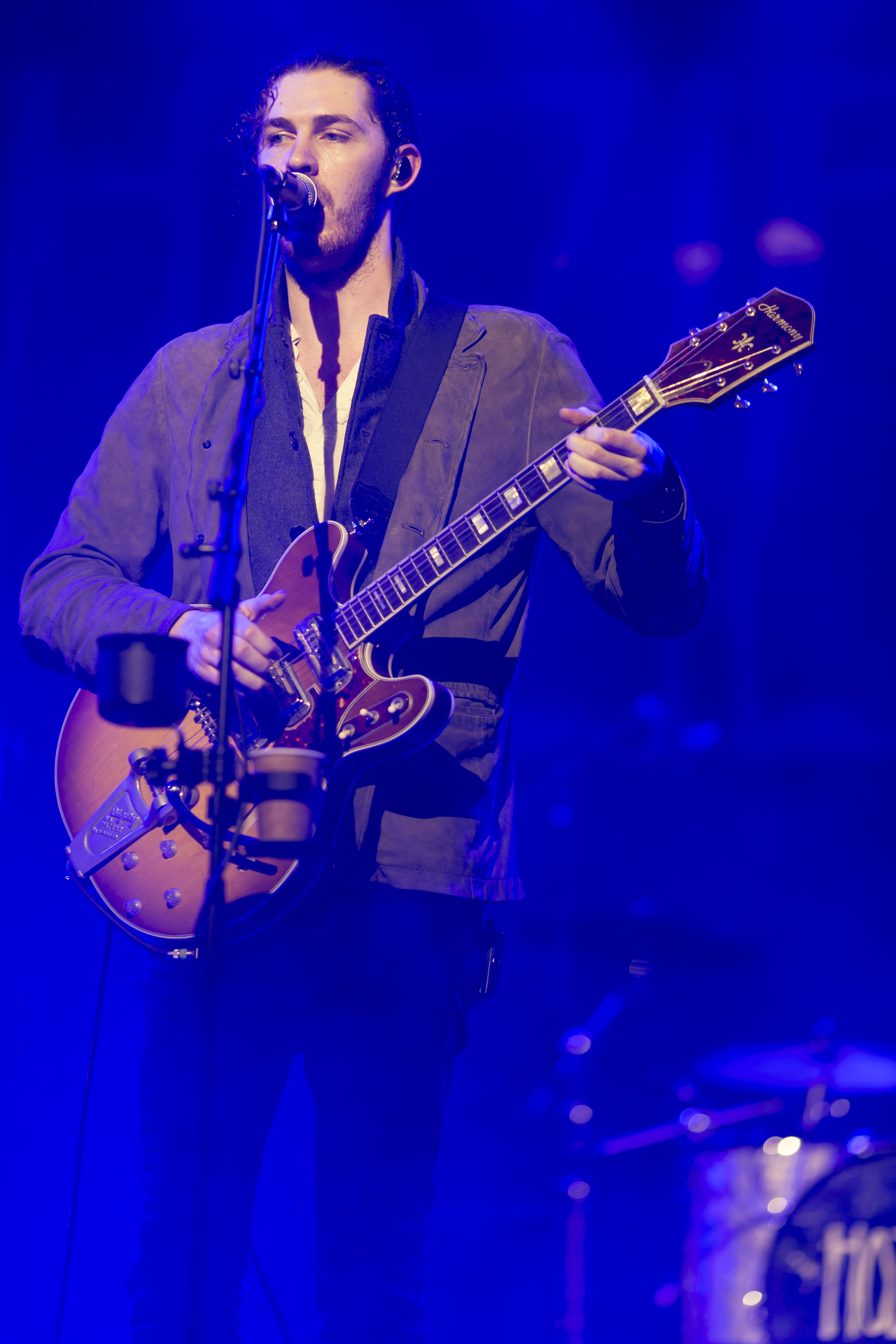 Byron Bay Bluesfest, 2015